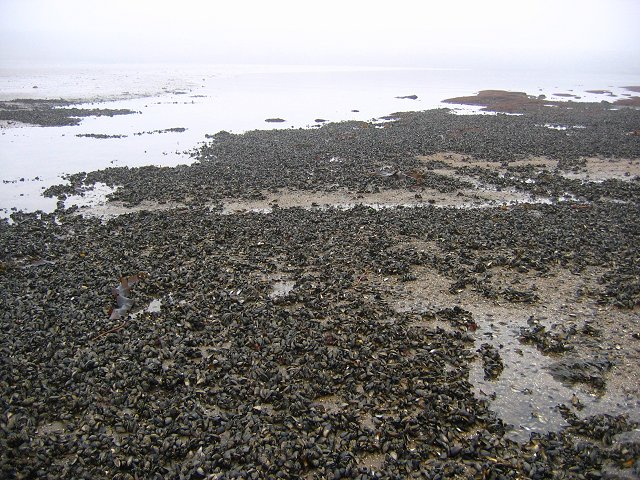 Mussel beds, Eastern Craigs. Being a spring tide, a rare exposure for some of these molluscs. Visited at a spring low.